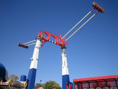 This is a view of Xtreme Swing at Valleyfair